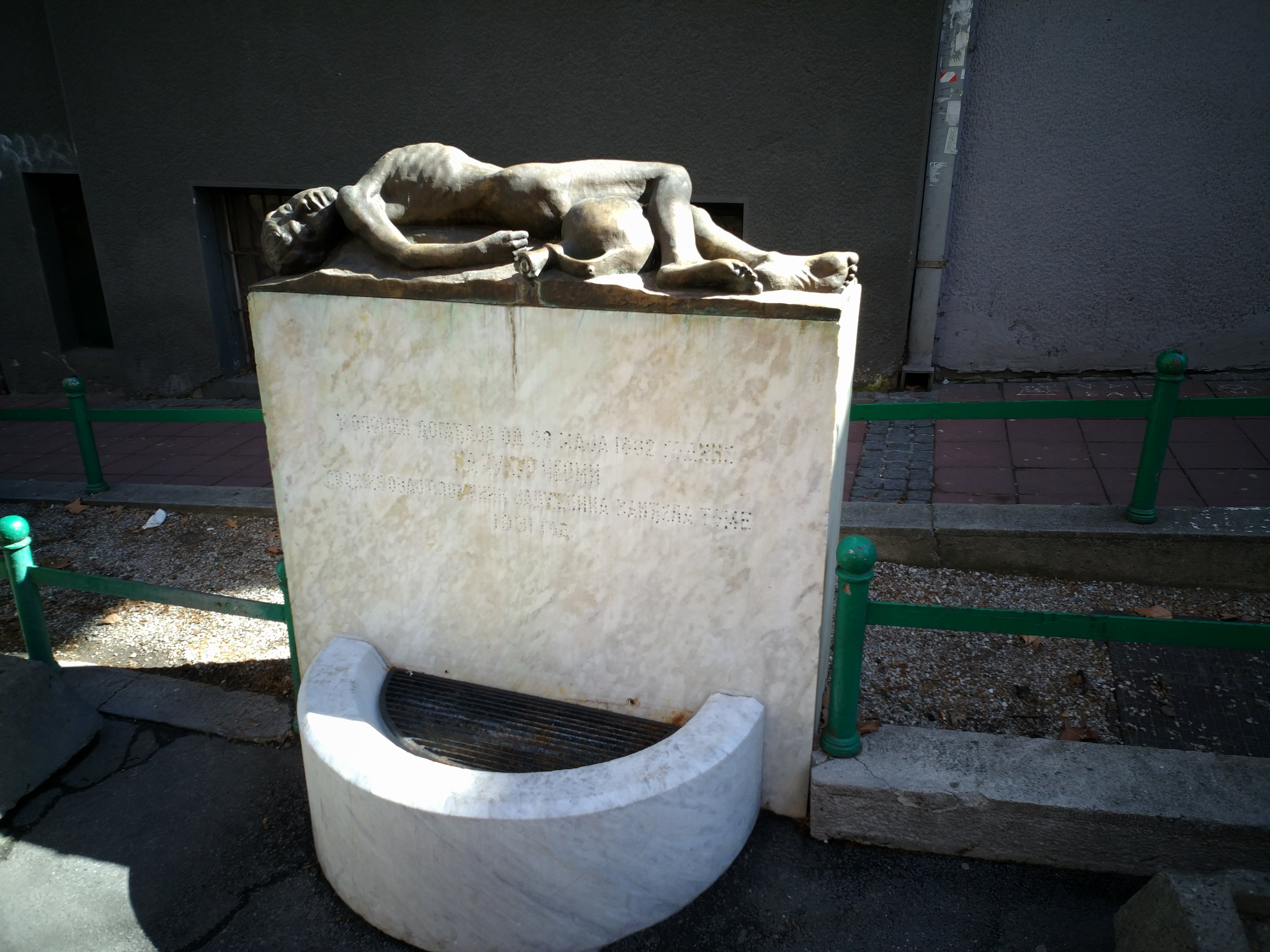 Dobracina street in Belgrade, Serbia Srpski (latinica): Dobračina ulica, Čukur česma, Beograd, Srbija